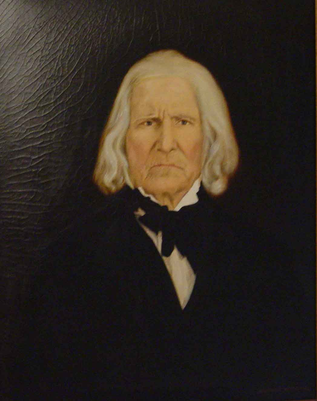 Taken from - due to its age it's in the public domain